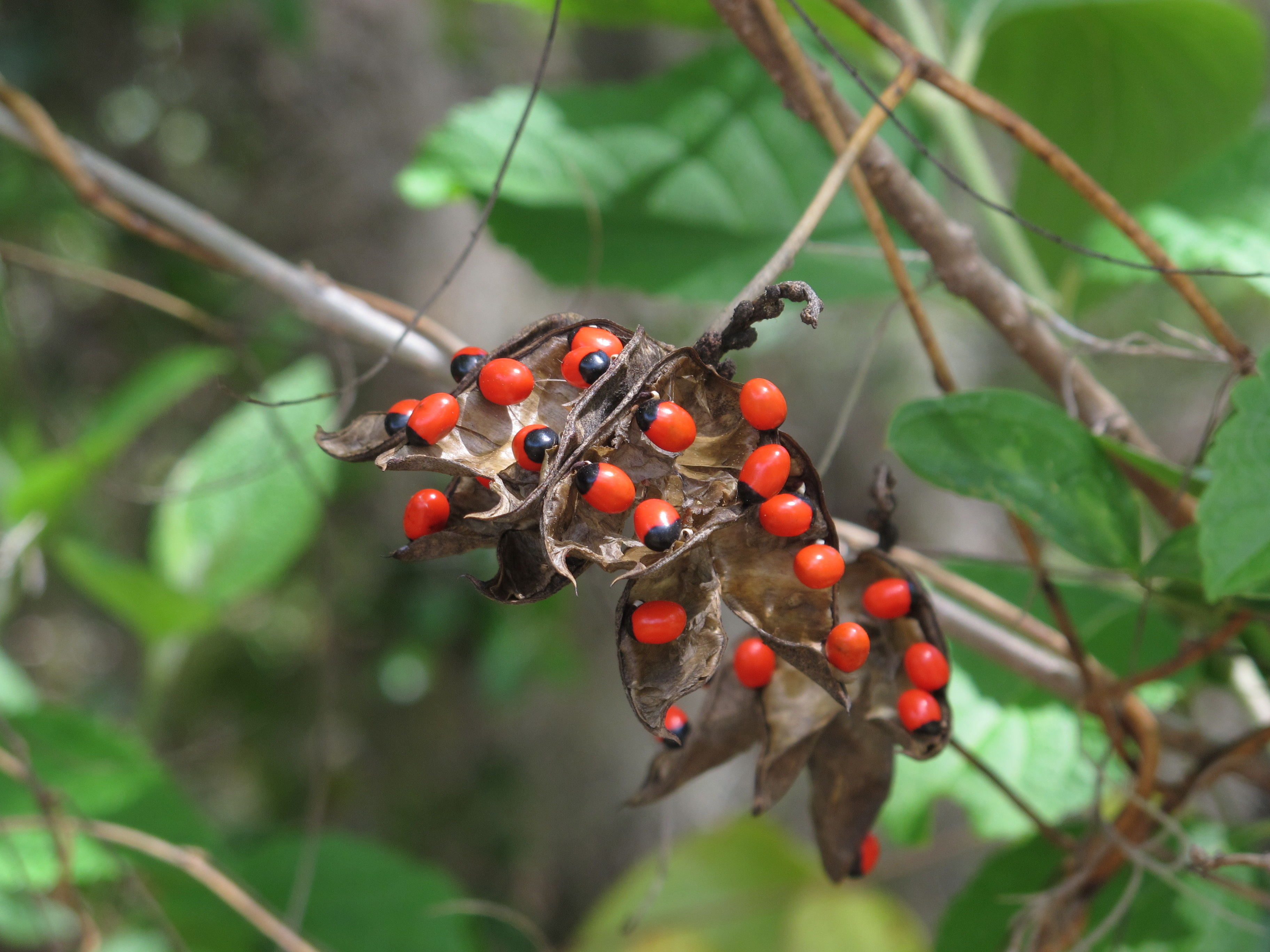 Archbold Biological Station, Highlands Co., Florida, USA.